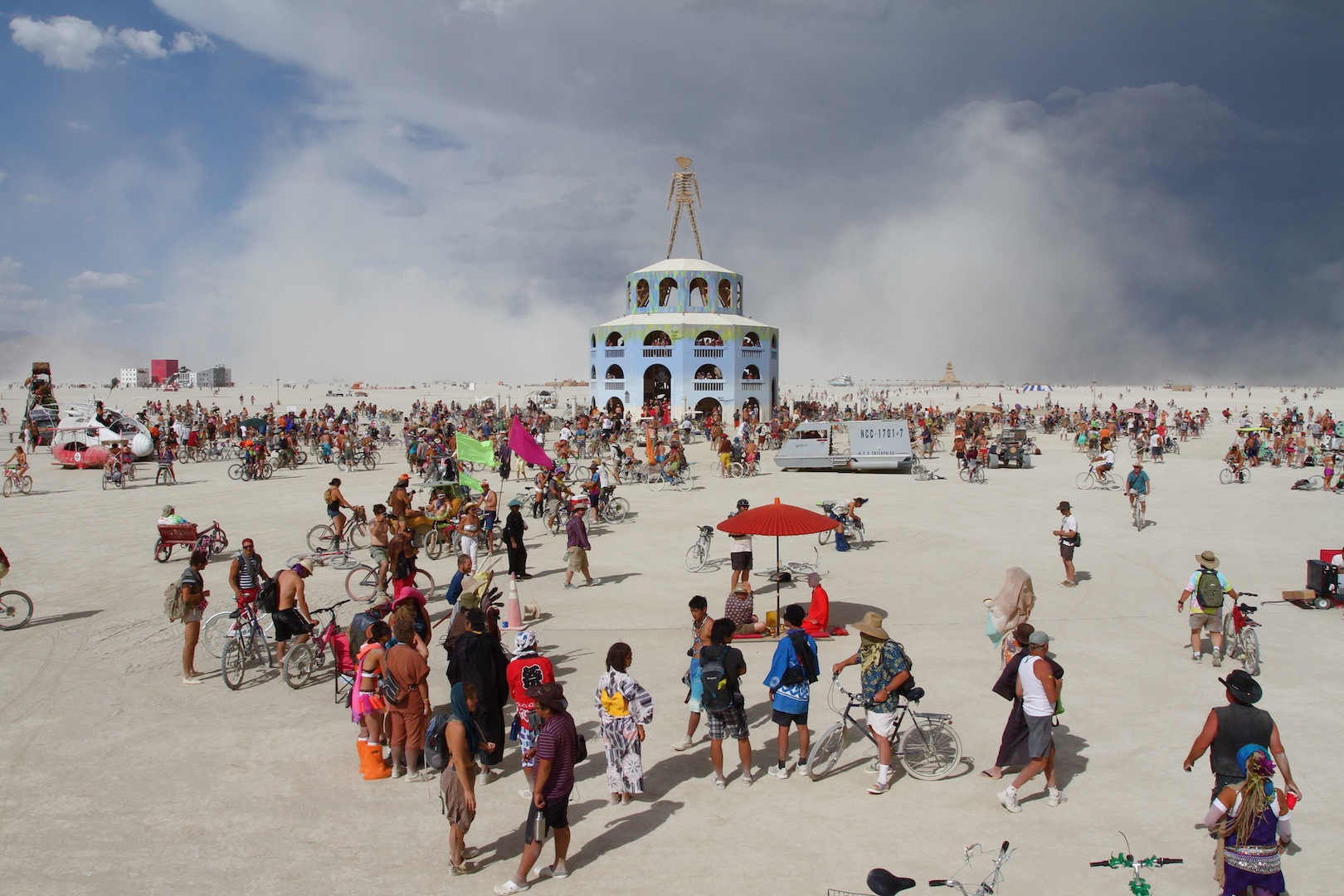 The Man and the burners gathering around.